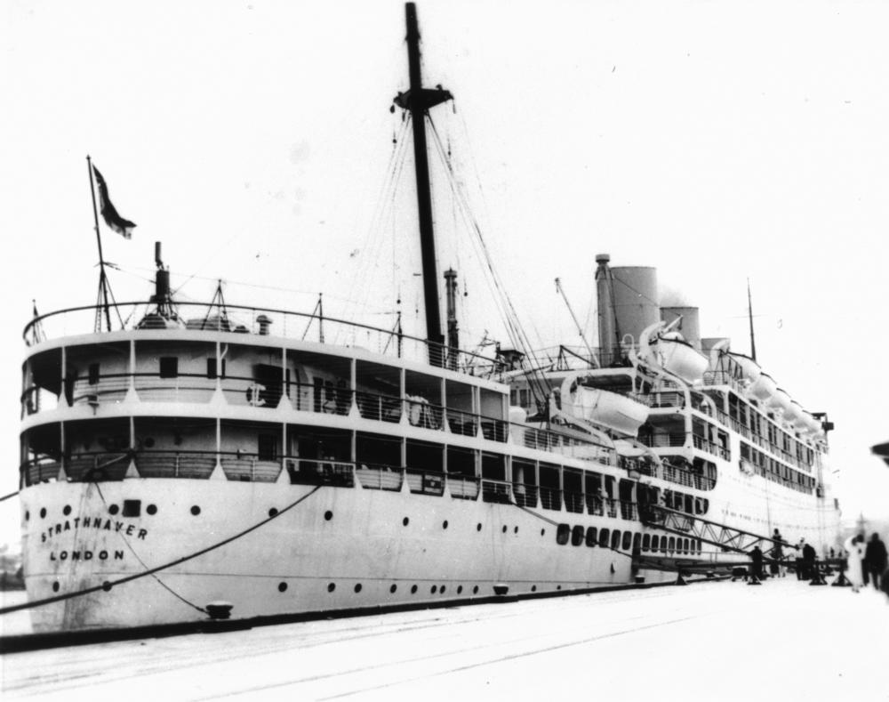 P&O steam turbine liner RMS Strathnaver, built in 1931 and scrapped in 1962